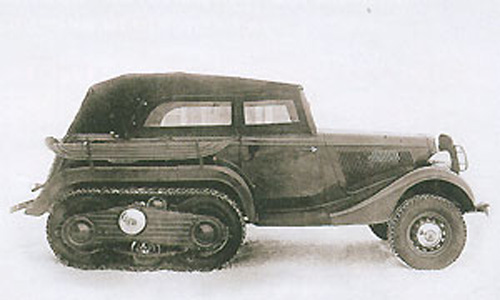 Soviet experimental half-track car GAZ-VM with phaeton body during the state tests, right view.